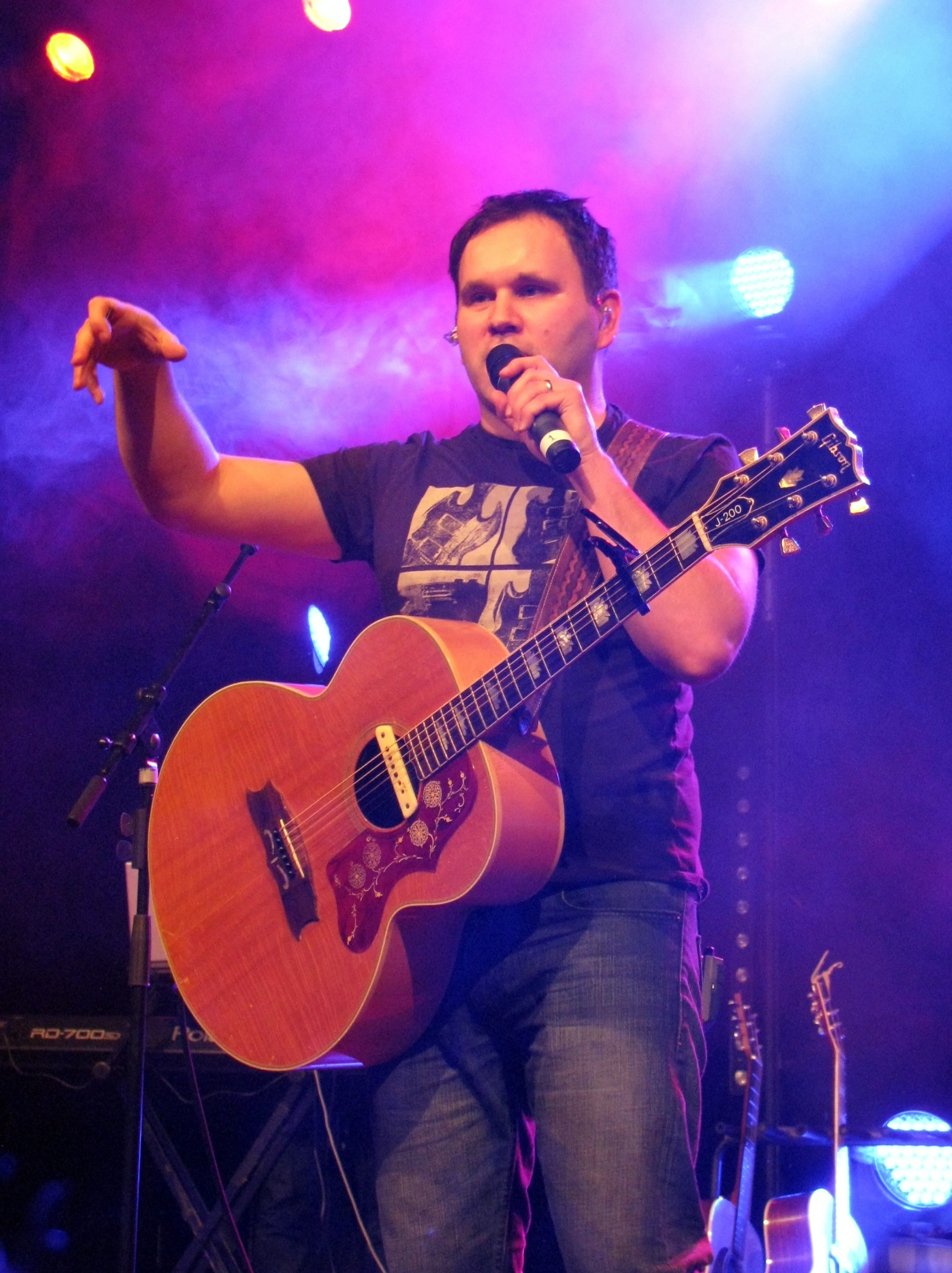 Matt Redman in concert at Dettingen an der Erms (Baden-Wuerttemberg, Germany), 2010 December 11.